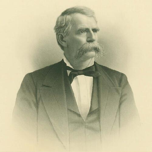 Erastus Wells. Steel engraving by A.H. Ritchie, mid to late 19th century Missouri History Museum Photograph and Print Collection. Portraits n38652 {"subject_uri":"http:\/\/collections.mohistory.org\/resource\/21242","local_id":"37447"}